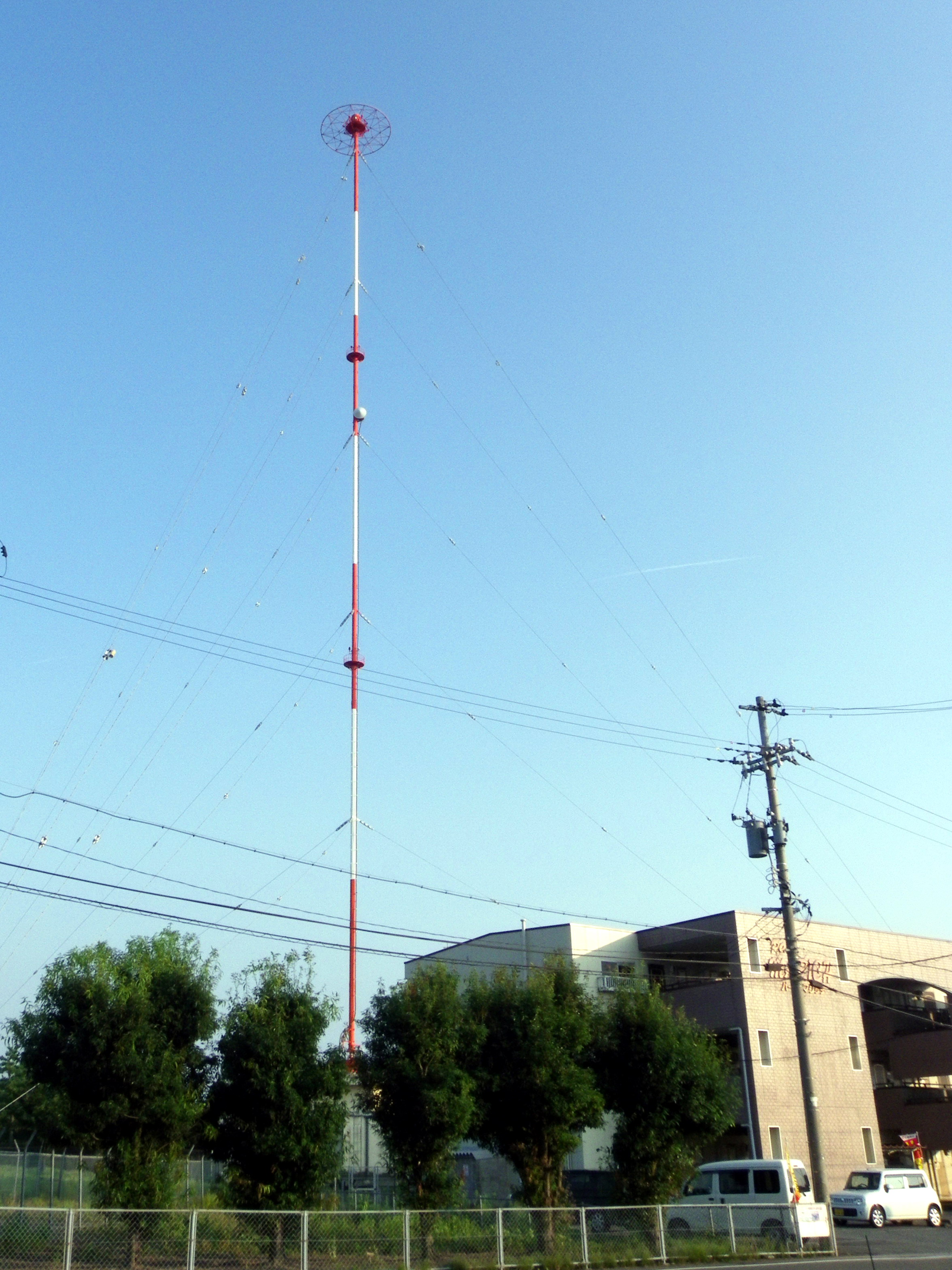 NHK Geba Radio Transmitting Station in Fukui, Fukui prefecture NHK Radio 1:JOFG 927kHz 5kW NHK Radio 2:JOFC 1521kHz 1kW